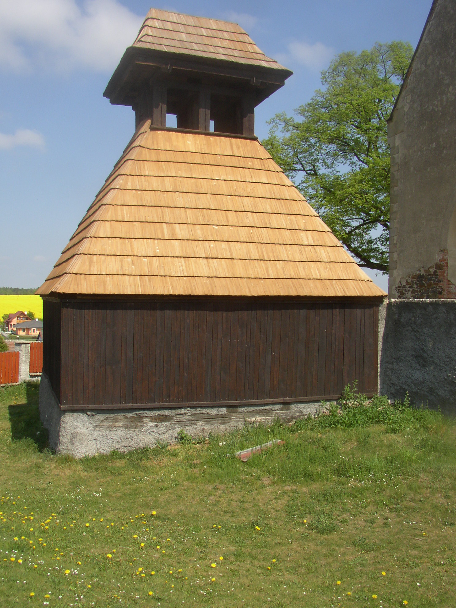 Belfry in Běleč, Kladno District, Czech Republic.